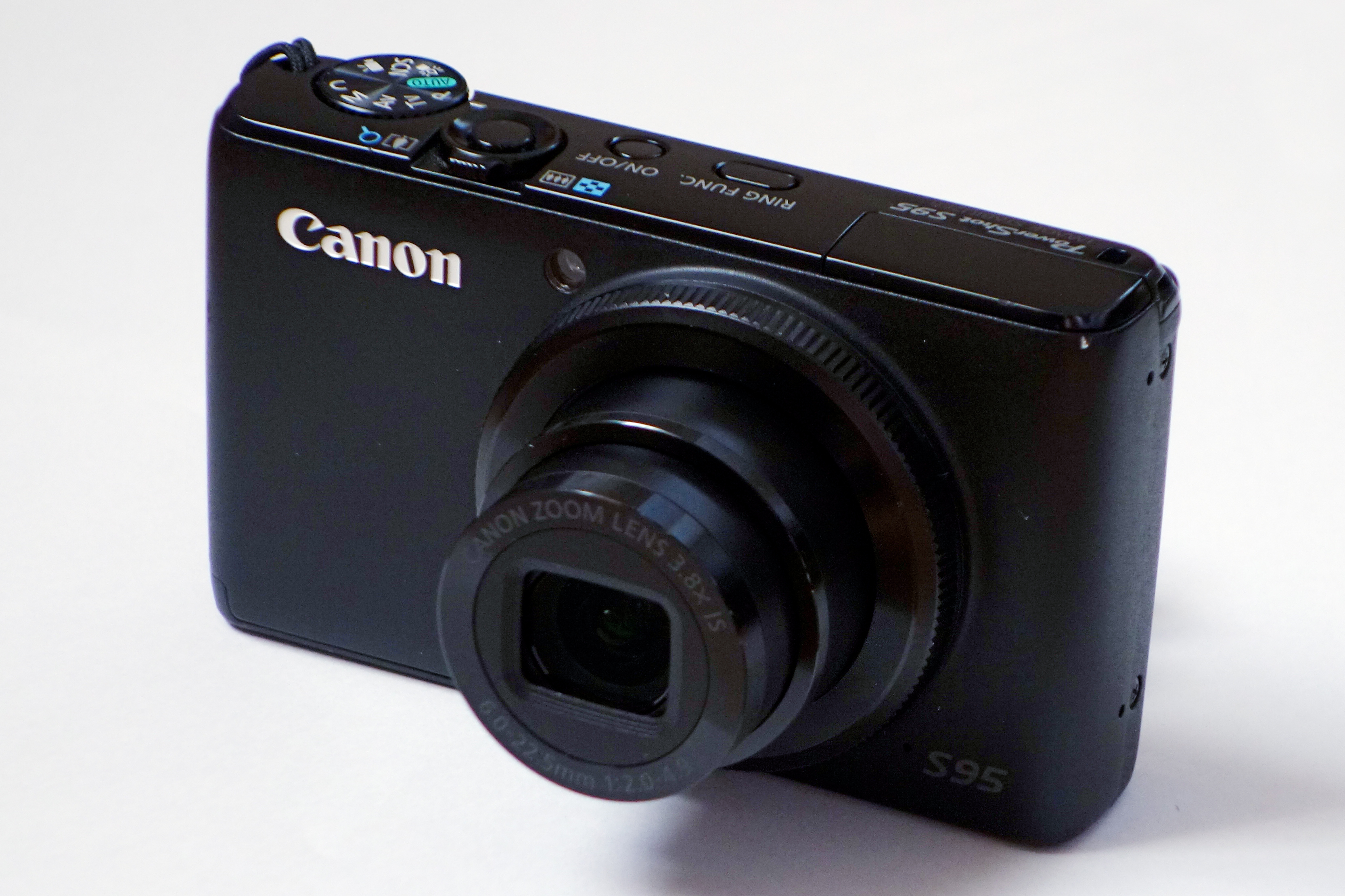 Canon PowerShot S95